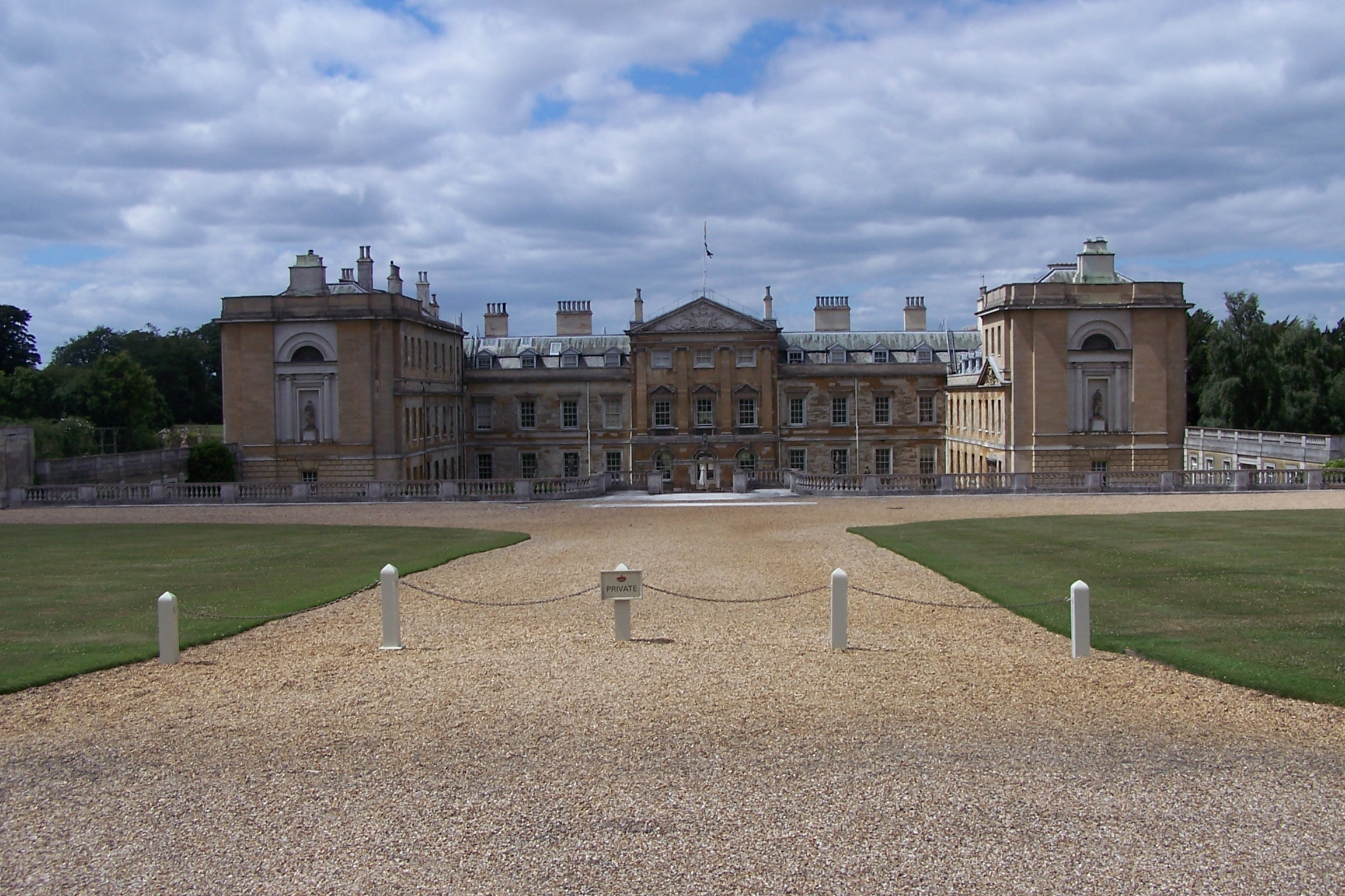 Woburn Abbey, east side